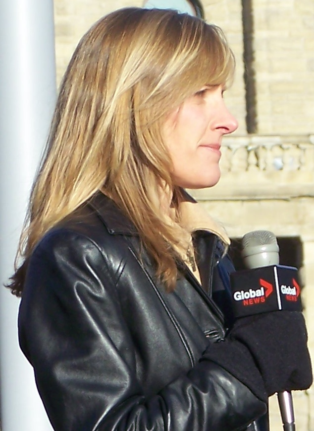 This is a picture of Carolyn Kury de Castillo, a reporter for CICT-TV (Global TV in Calgary). She was covering an anti-coalition rally in Calgary, Alberta to protest the proposed coalition of opposition parties in Canada. In the background is City Hall.